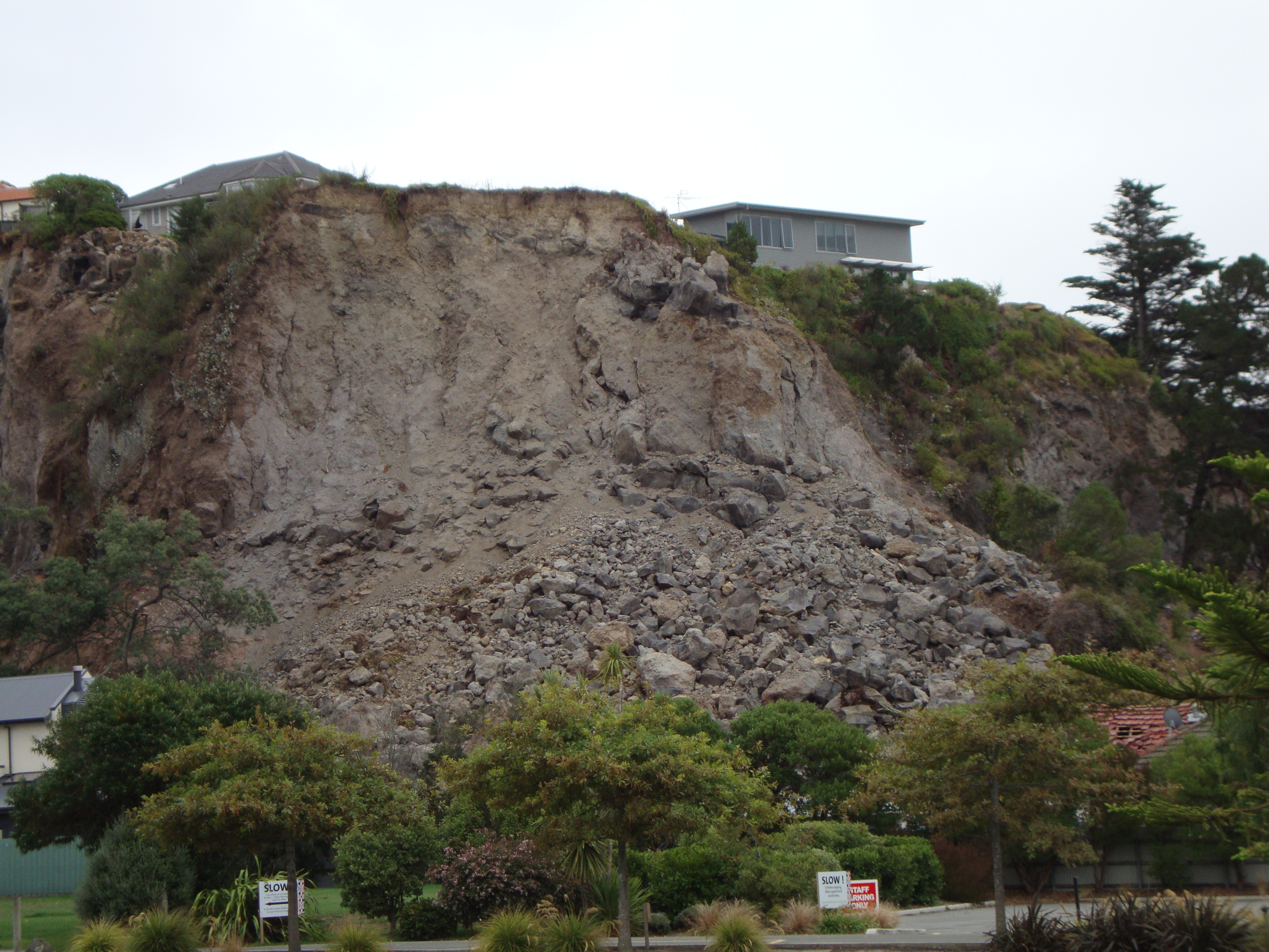 Landslide in Puriwheriro Lane, Redcliffs, Christchurch, triggered by the 2011 Christchurch earthquake.